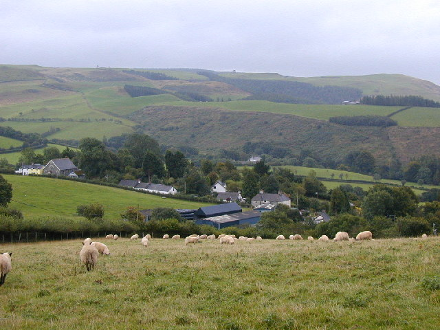 Hamlet of Cnwch Coch. Taken from the hill to the north-west, notice the chapel for such a small settlement.